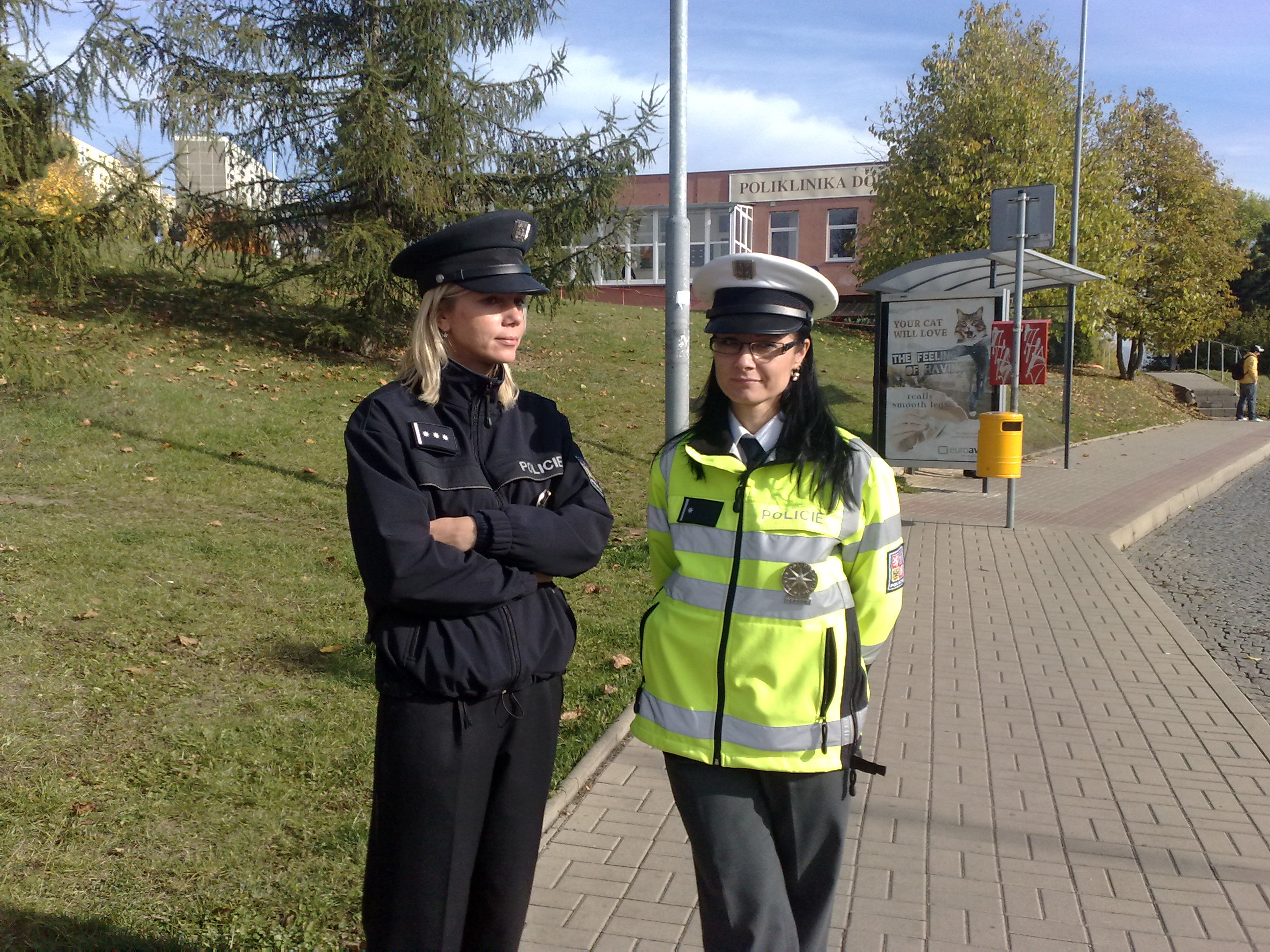 Two pretty female police officers in Dobětice, Ústí nad Labem, Czech Republic